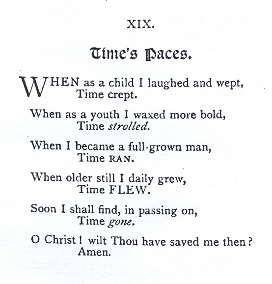 This is my photocopy of the poem 'Time's Paces' by Henry Twells (1823 - 1900) and published in his book 'Hymns and Other Stray Verses' (1901). It and the book are therefore well out of any copyright restrictions.